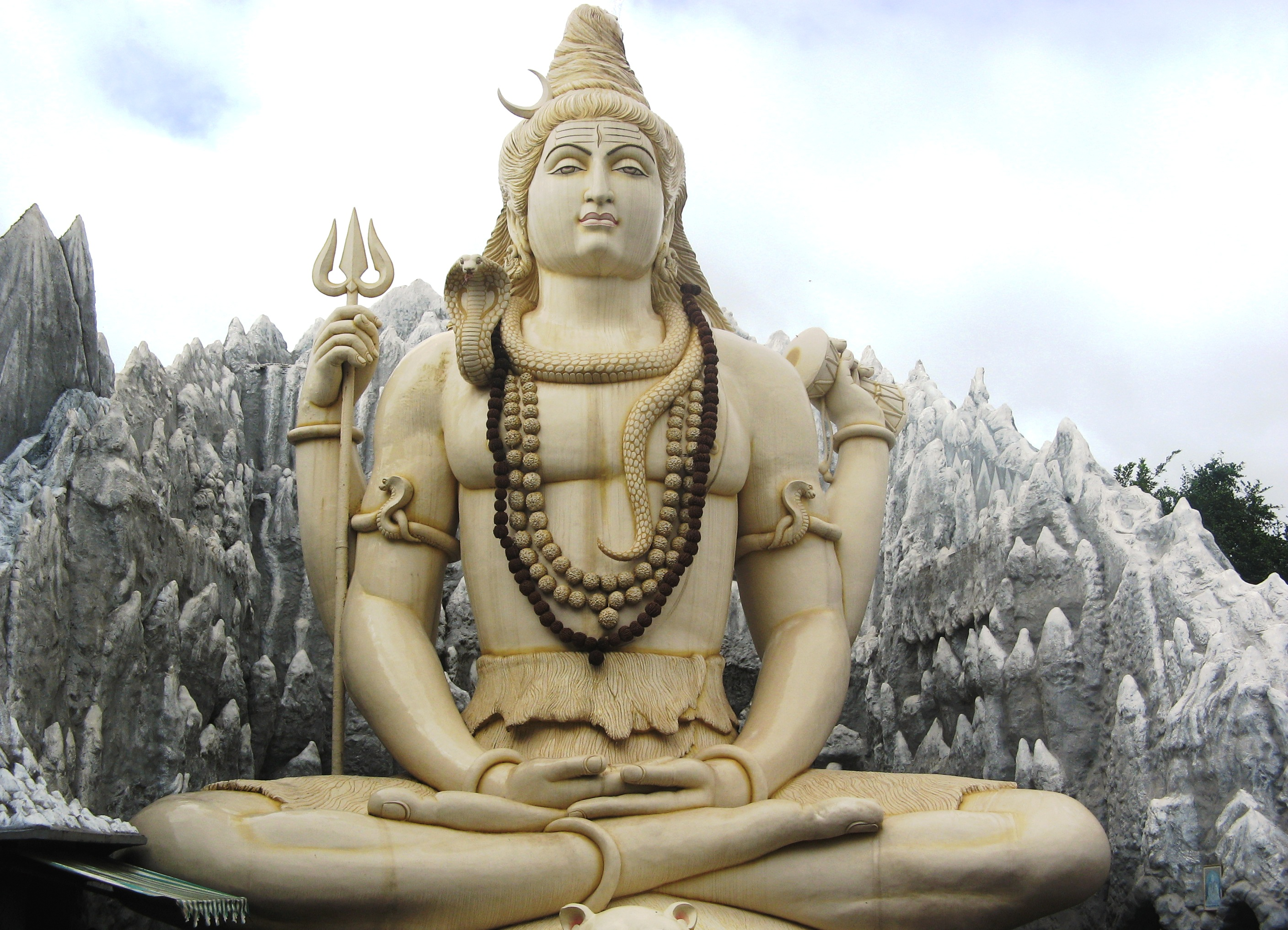 Kailash Nath Statue in the Shivtemple, Murughesh Palaya, Bangalore